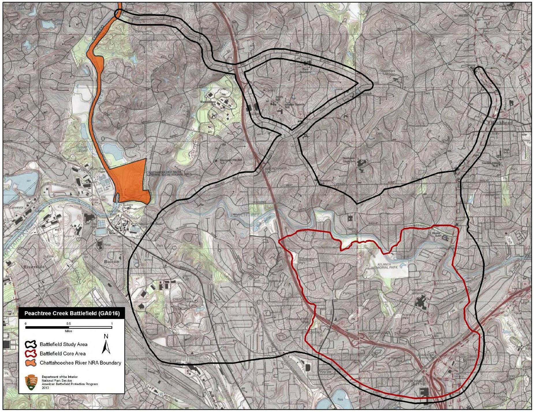 Map of battlefield core and study areas. The ABPP lengthened the Study Area to include the location where Thomas’ army crossed the Chattahoochee River, emphasizing the historic significance of Peachtree Creek as the first major clash between the Union and Confederate forces after the collapse of the Chattahoochee Line. The ABPP reduced the size of the 1993 Core Area to better conform to the physical constraints of the landscape and the documented area of fighting.